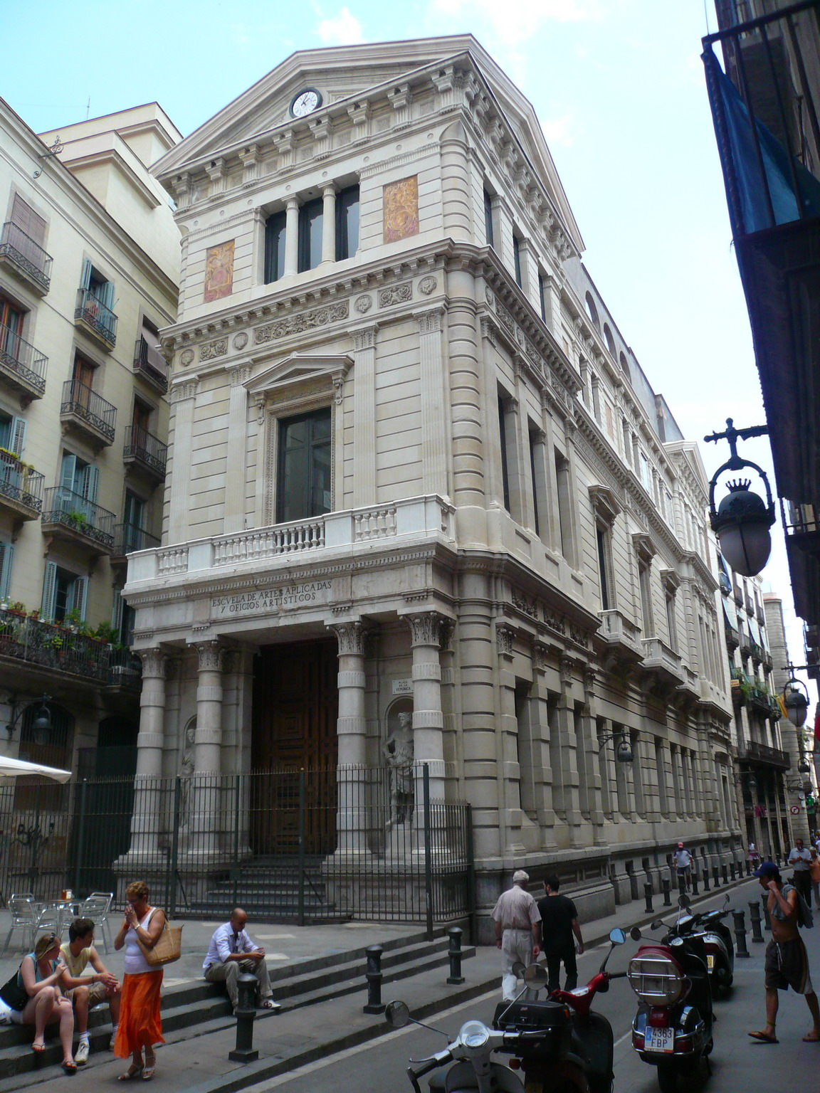 Escola de Llotja, at Plaça de la Verònica, Barcelona, Catalonia.